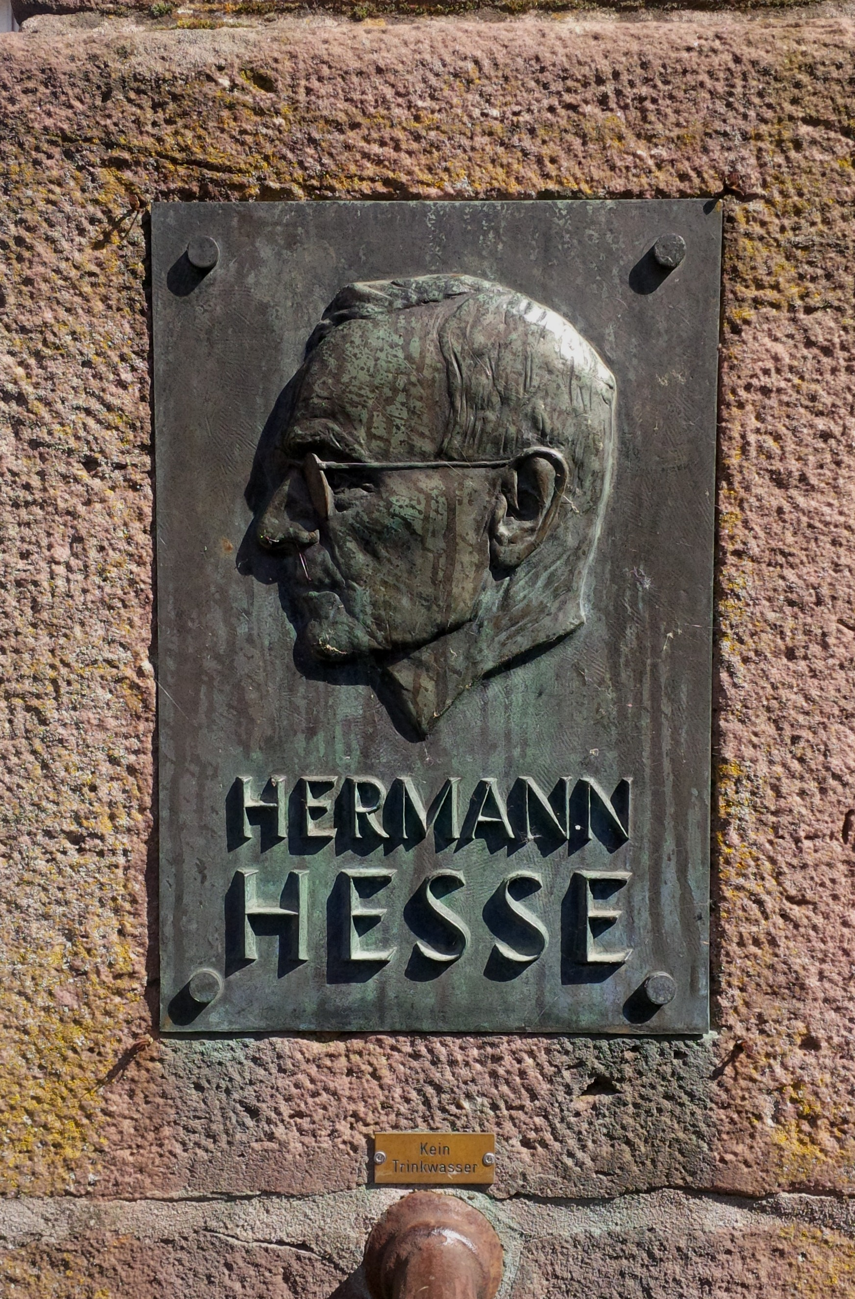 Hermann-Hesse Fountain in Calw (Germany)